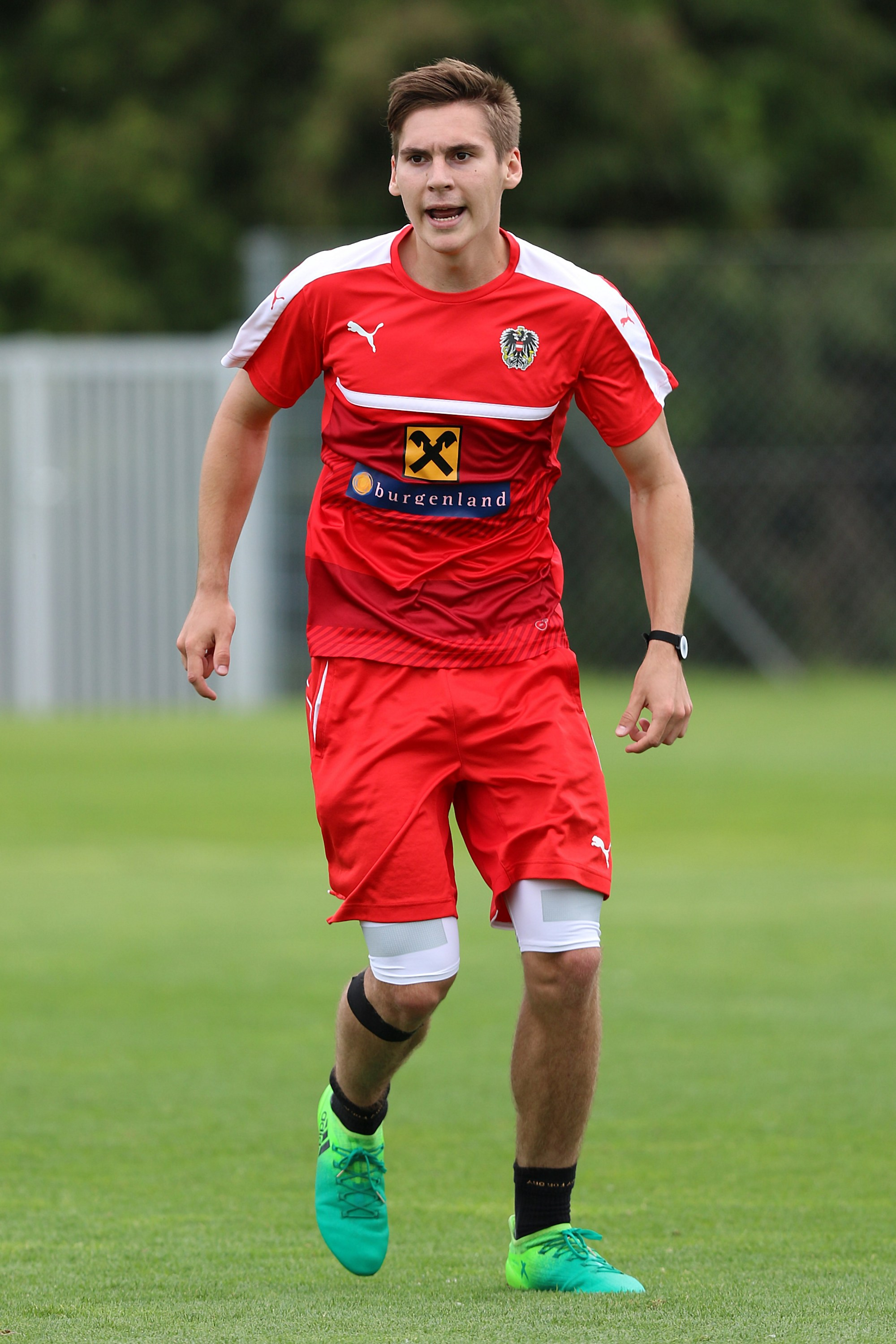 Teamcamp of the Austrian U-21 national football team in June 2017 in Bad Erlach. – The photo shows Maximilian Wöber (SK Rapid Wien)